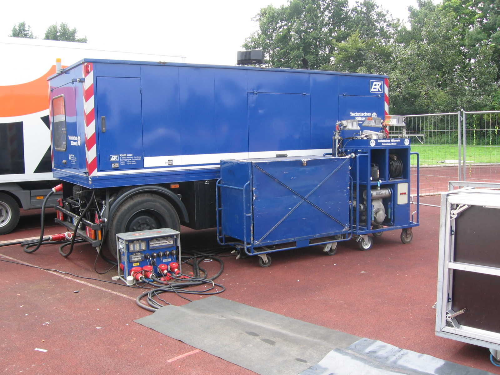 Emergency power system from the german THW